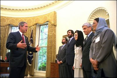 President George W. Bush meets with Afghan ministers in the Oval Office July 24, 2002. Pictured from left, are: Foreign Minister Abdullah Abdullah; Minister of Commerce Mustafa Kazemi; Minister of Health Suhaila Siddiq; Minister of Women’s Affairs Habiba Sorabi; Minister of Reconstruction Mohammad Amin Farhang; Minister of Higher Education Sharief Fayes; and Minister of Rural Development Mohammad Hanif Atmar.